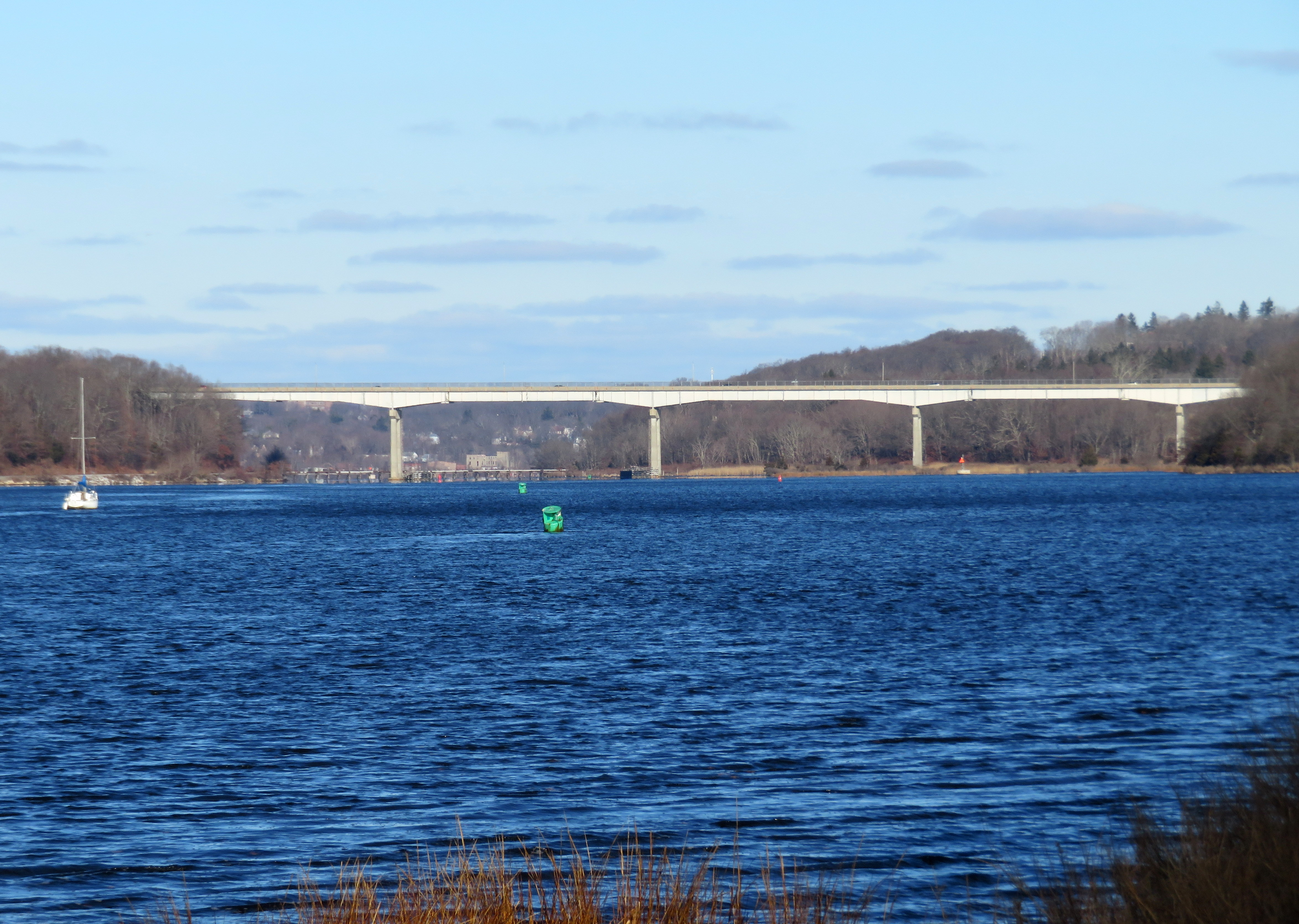 The Mohegan-Pequot Bridge viewed from Stoddards Wharf State Park in December 2018